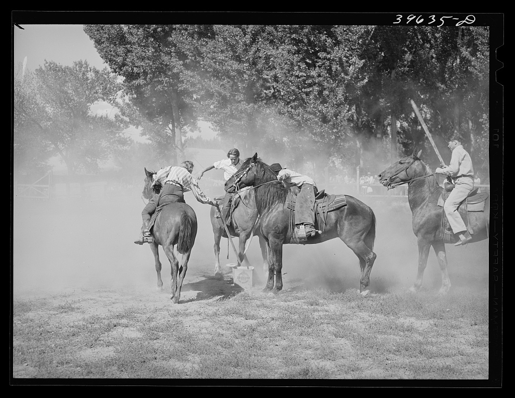 Black and white photograph of four men on horses using sticks to spear potatoes from a bucket. Taken by Russell Lee during a Fourth of July celebration in Vale, Oregon in 1941.